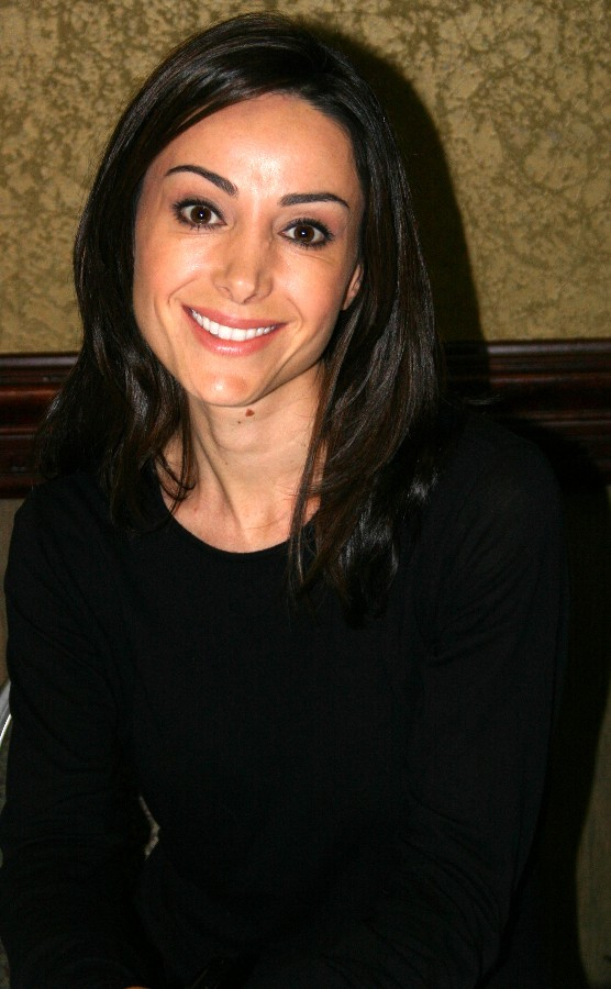 Actress Robia LaMorte at "Cleveland Vulkon Slayercon".